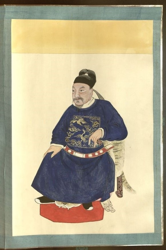 Mu Sen, a local commander of Lijiang